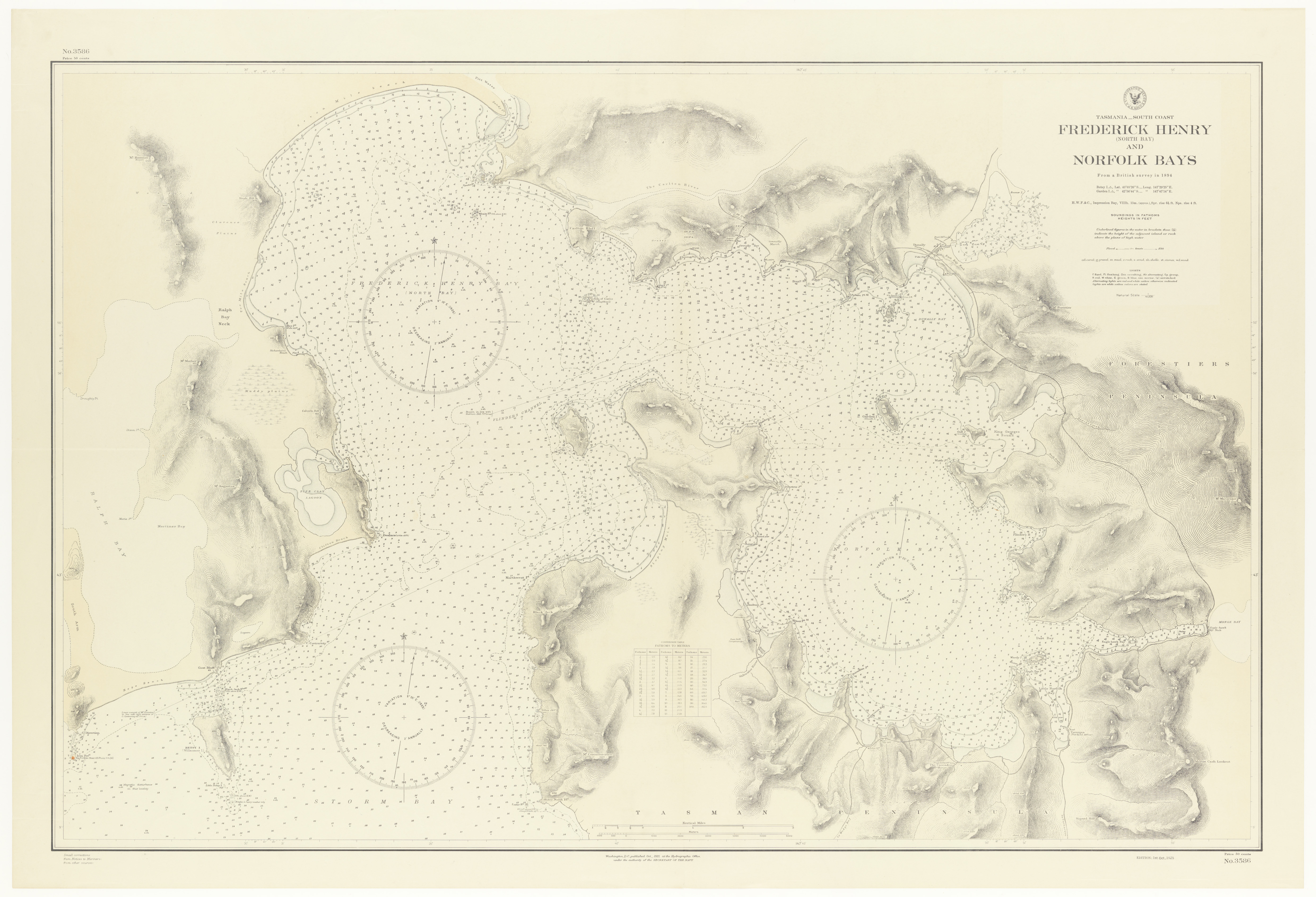 Historical map of Frederick Henry Bay and Norfolk Bay, featuring Smooth Island